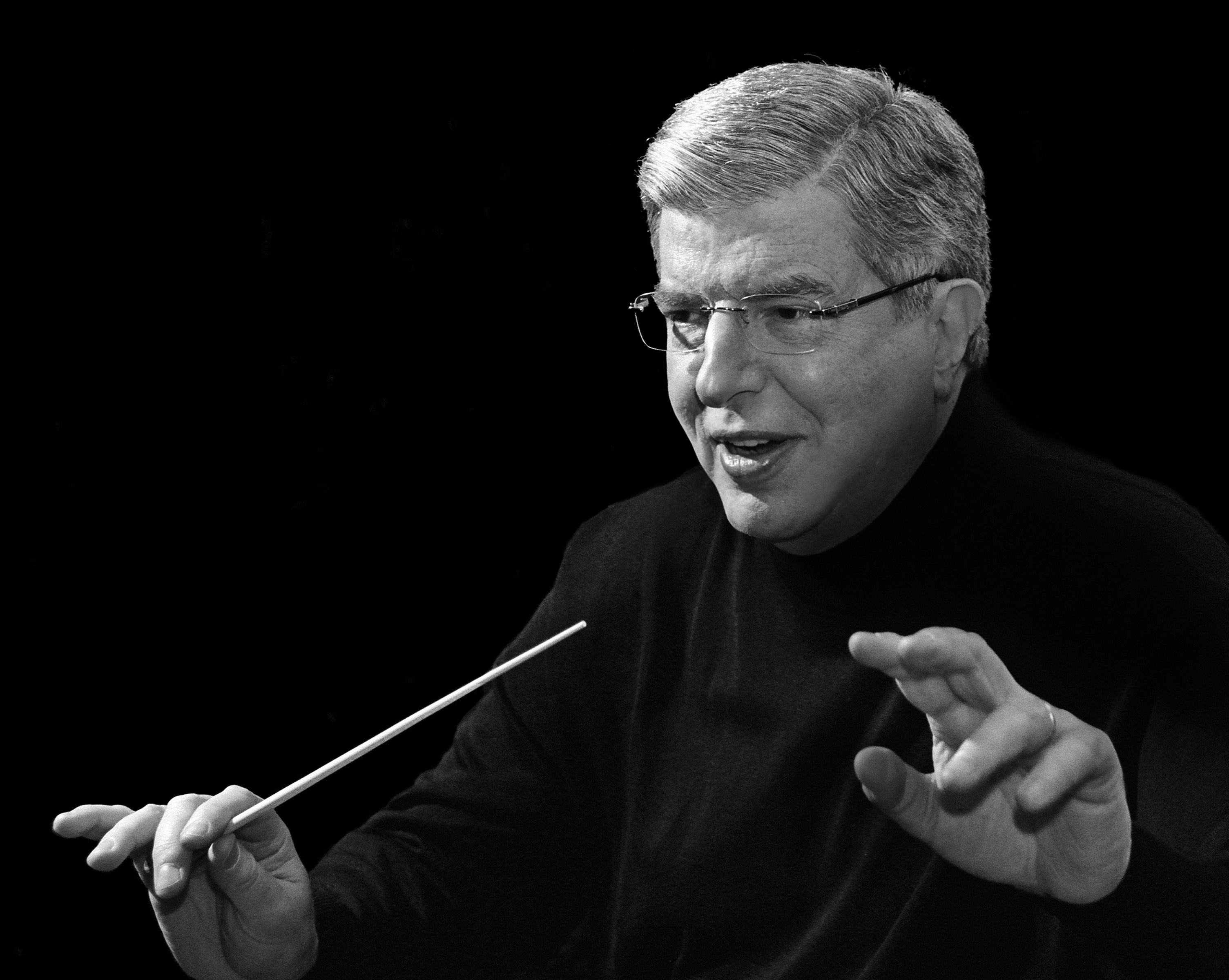 Official Picture for Mr. Marvin Hamlisch. Authorized by Mr. Marvin Hamlisch